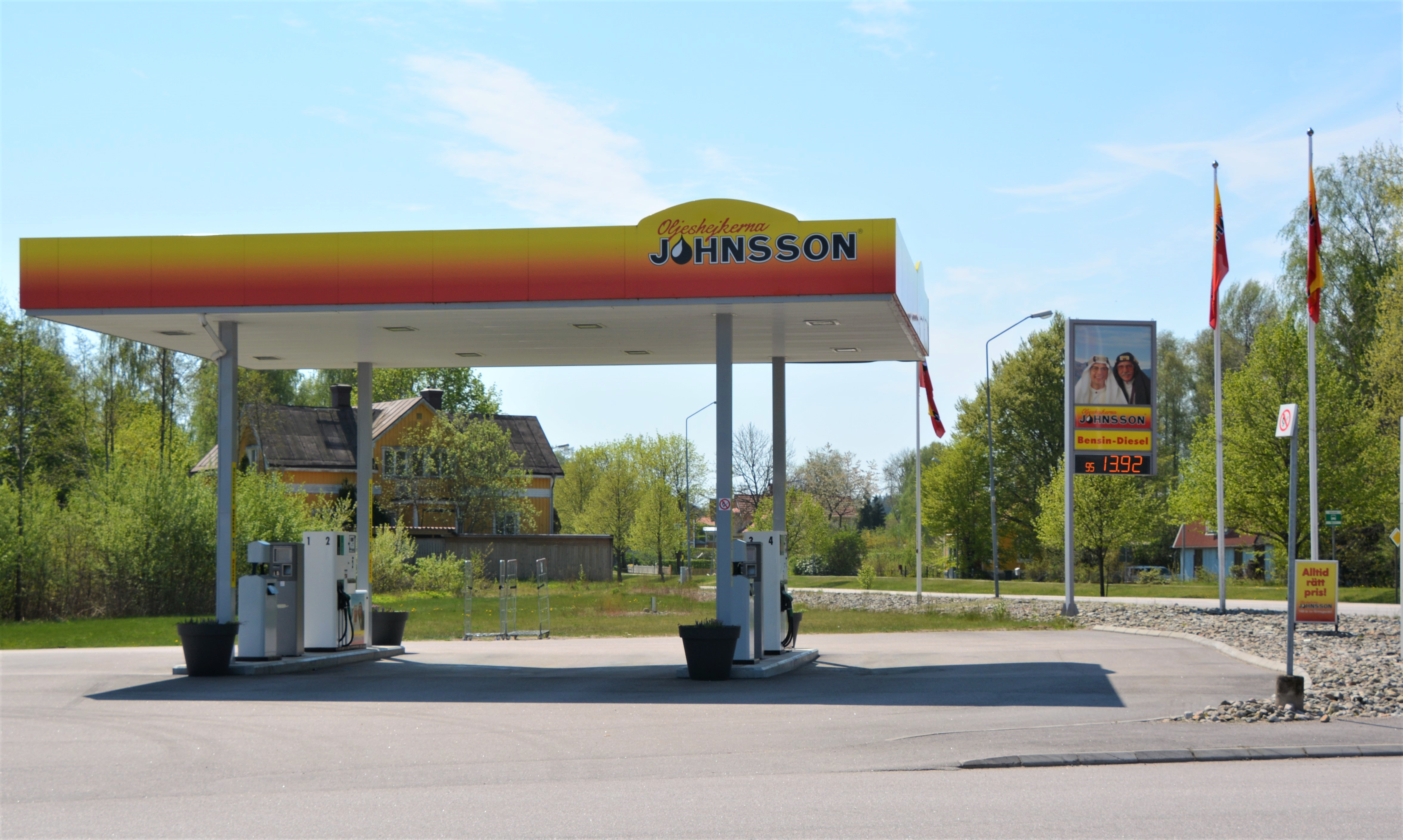 Oljeshejkerna Johnsson, Ryd